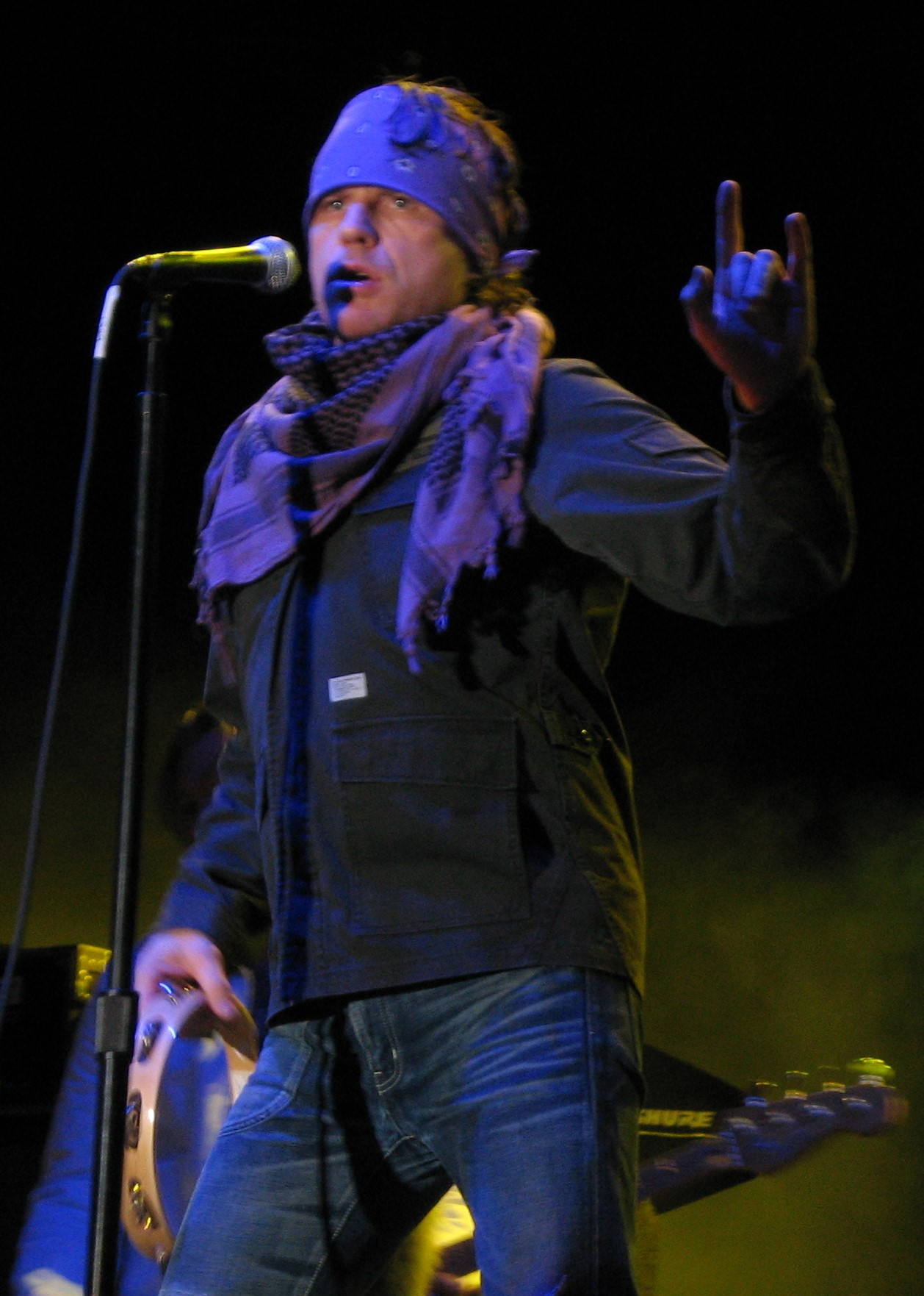 Picture taken by myself at the Coke-Live Festival in Bucharest - Romania, 24th of June 2007